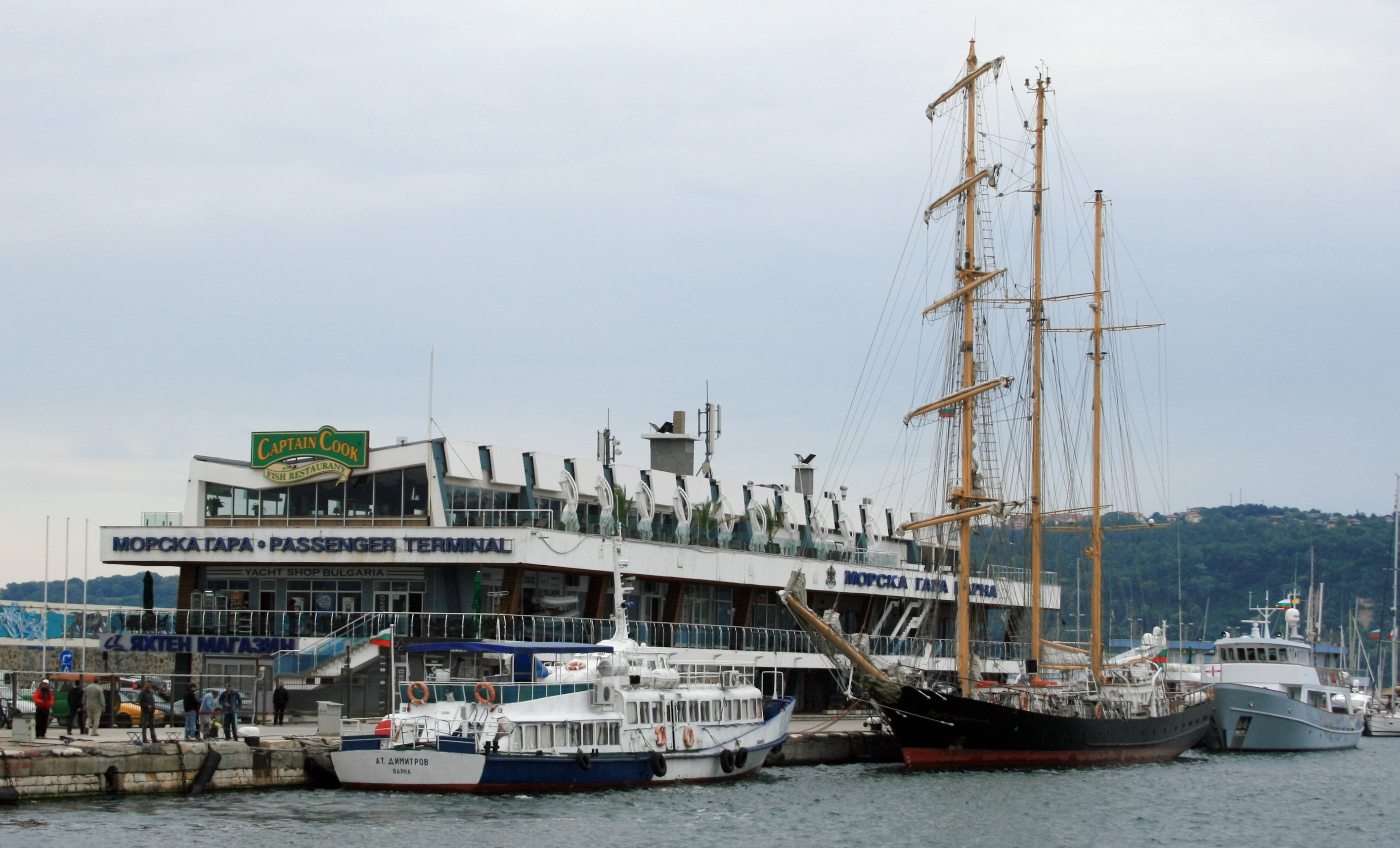 Bulgaria: Port of Varna at Black Sea; Passenger Terminal (in the middle STV "Kaliakria"/build in Bulgaria, 1984; home port:Varna, Bulgaria.